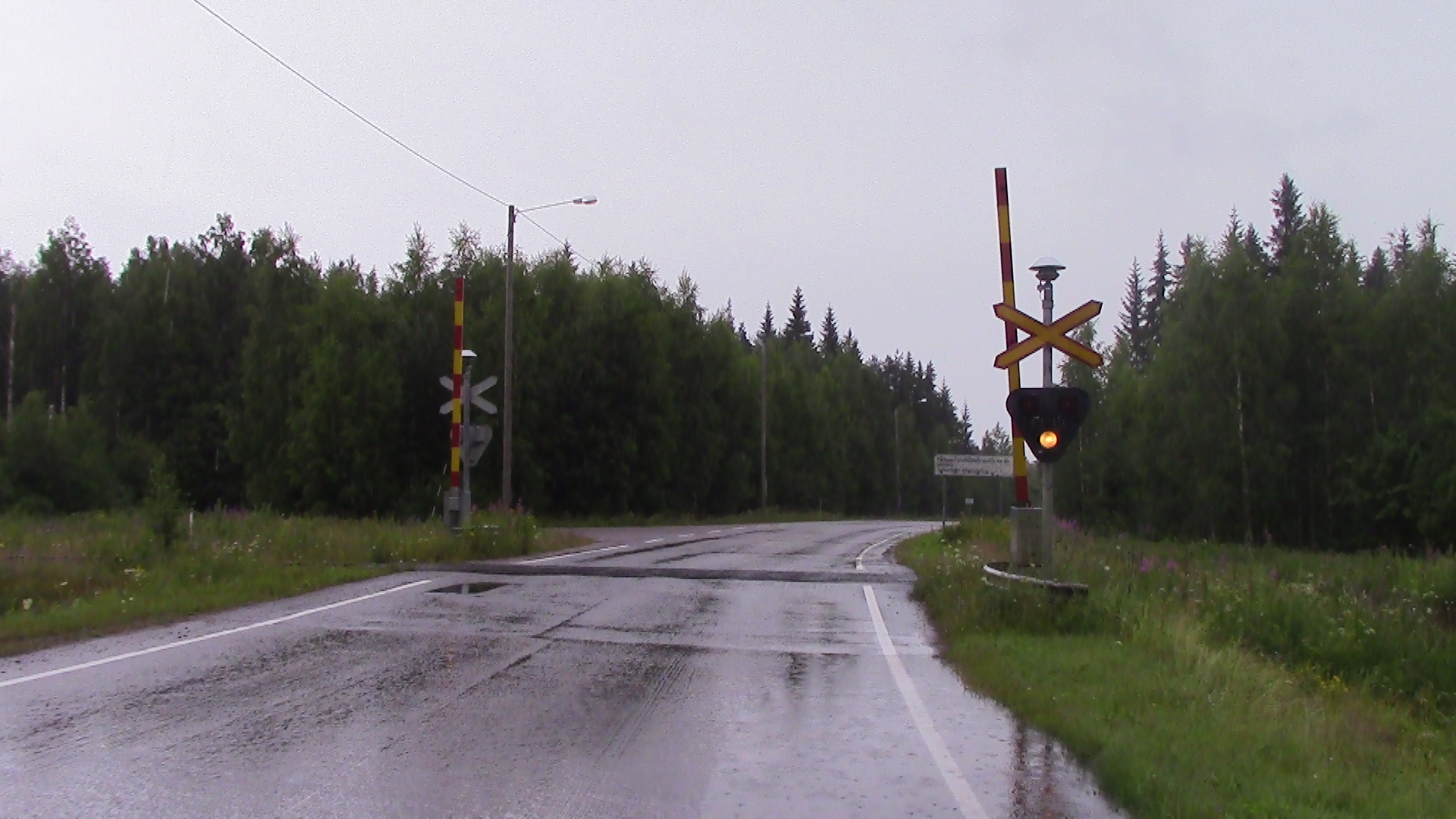 Regional road 467 at Hiismäentie level crossing in Rantasalmi. The road runs from Rantasalmi center to national road 14.